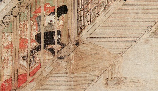 Haseo-zōshi ("Handscrolls of Ki Haseo")